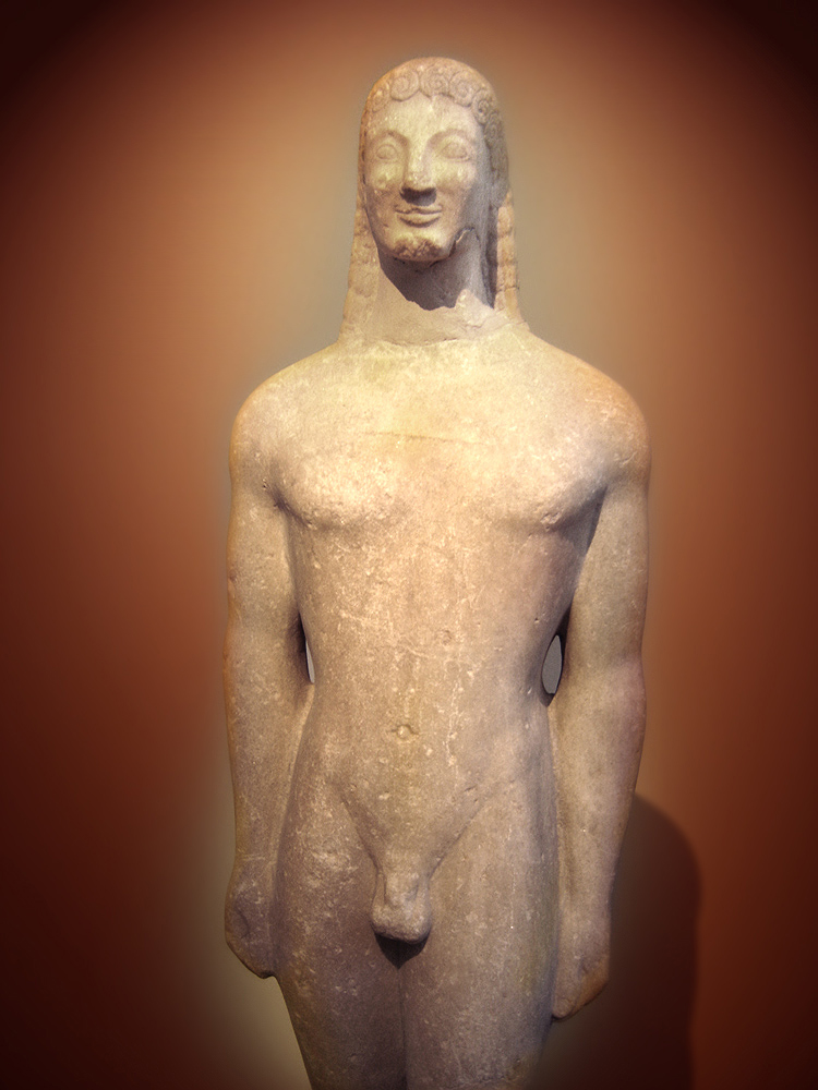 Kouros in the National Archaeological Museum of Athens. Found on the Cycladic Island Santorini in a necropolis below Ancient Thera, NAMA 8.